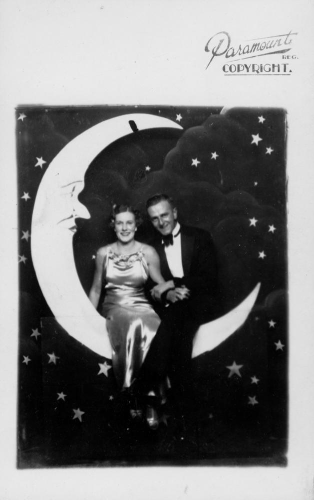 Photographer: Unidentified Location: Brisbane, Queensland, Australia View this image at the State Library of Queensland: Information about State Library of Queensland’s collection: You are free to use this image without permission. Please attribute State Library of Queensland.